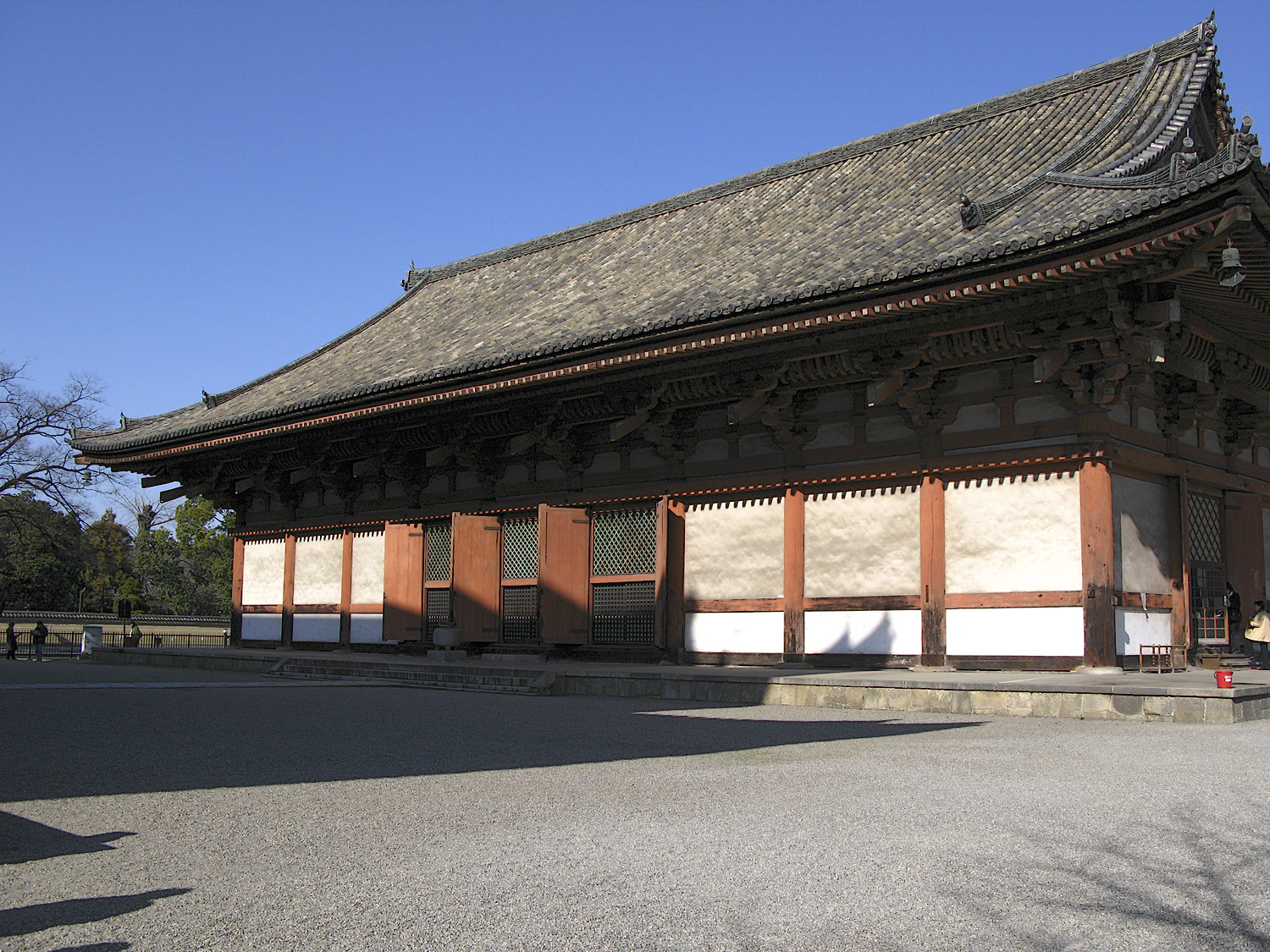 This building is the Kōdō 講堂 at Tō-ji, an ancient Buddhist temple in Kyoto, Japan. I took the photo and contribute my rights in the file to the public domain; individuals and organizations retain rights to images in it.